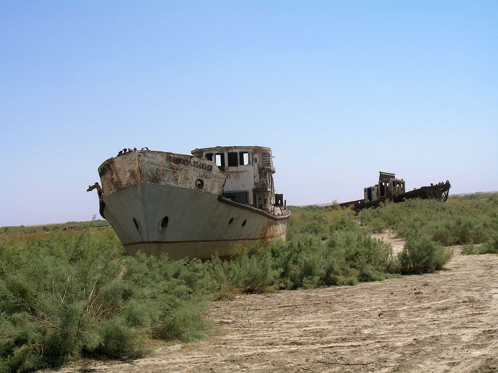 Orphaned ships in the former Aral Sea harbor of Mo‘ynoq, Uzbekistan.